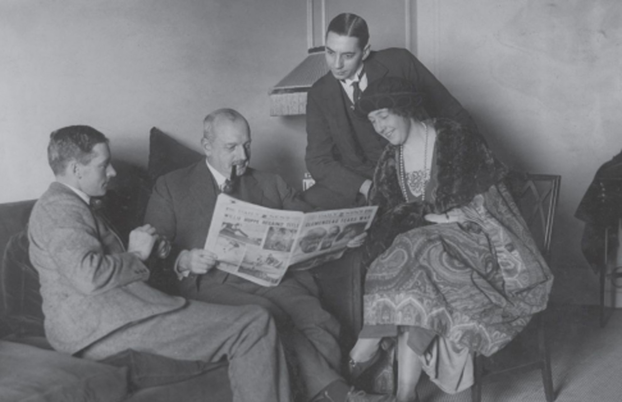 Colonel Archibald Christie (left) former officer of the Royal Flying Corps on the 1922 British Empire Expedition Tour